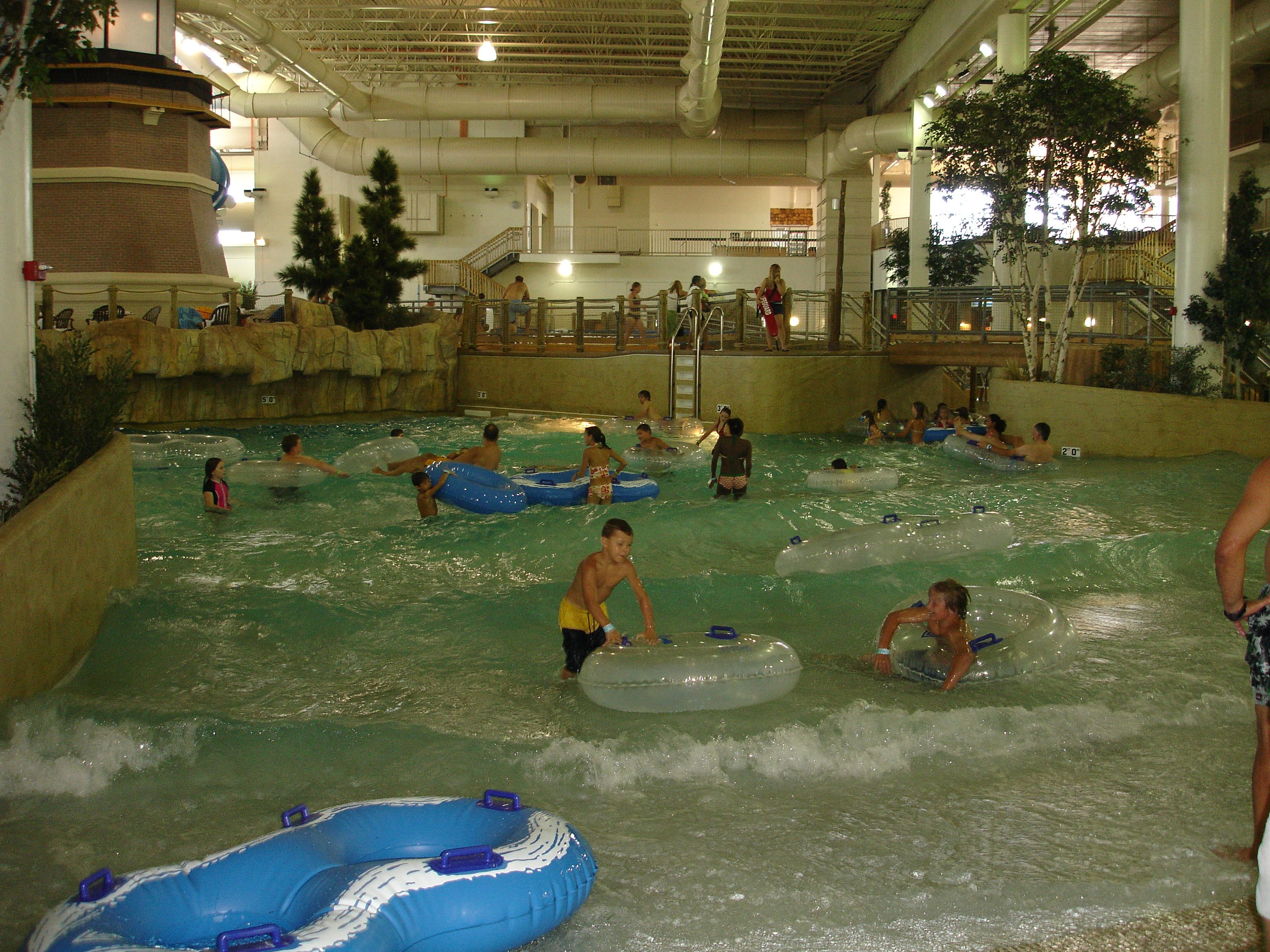 Wave pool at the Water Park of America